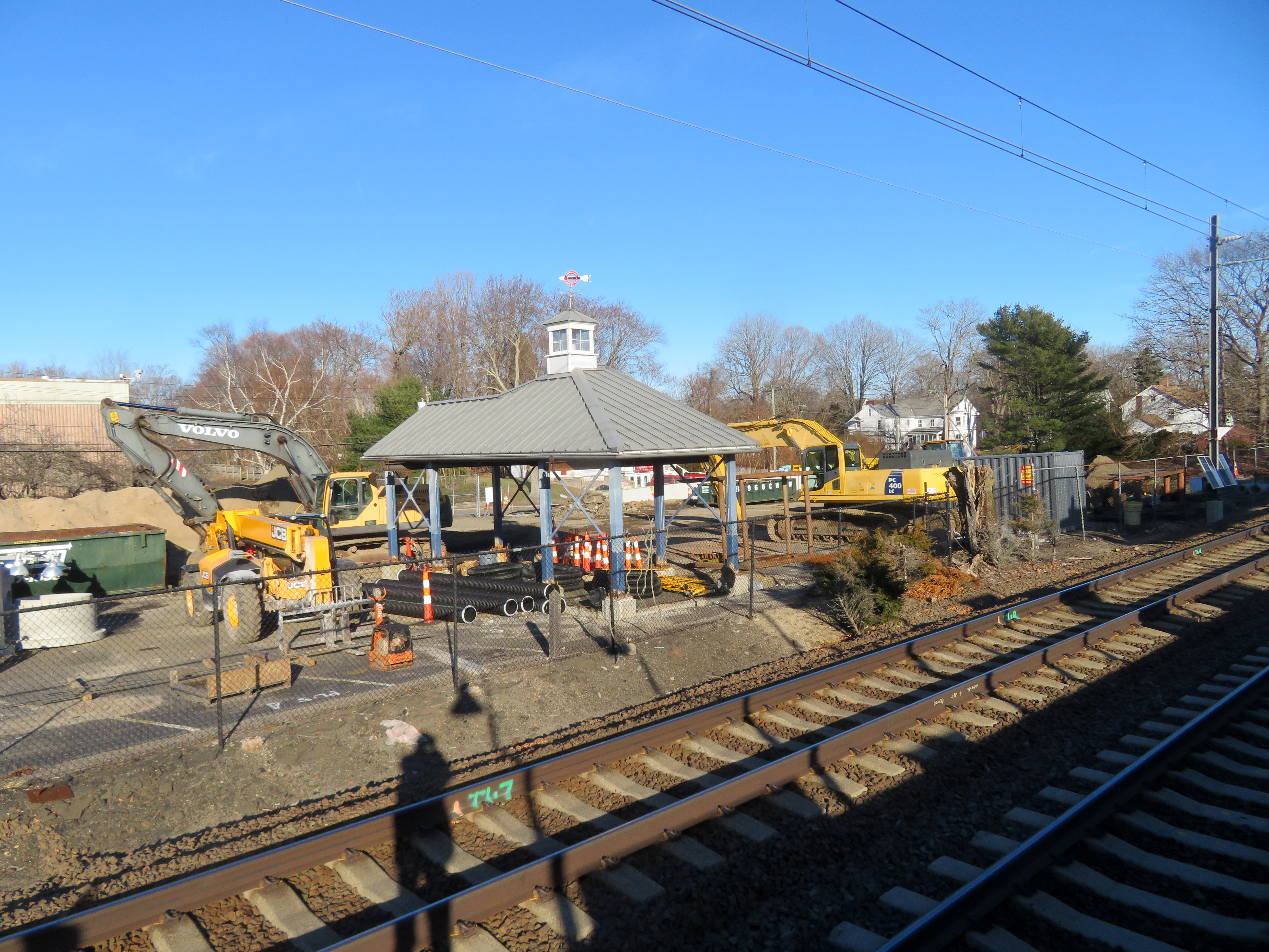 Construction of the second platform at Clinton station in December 2019